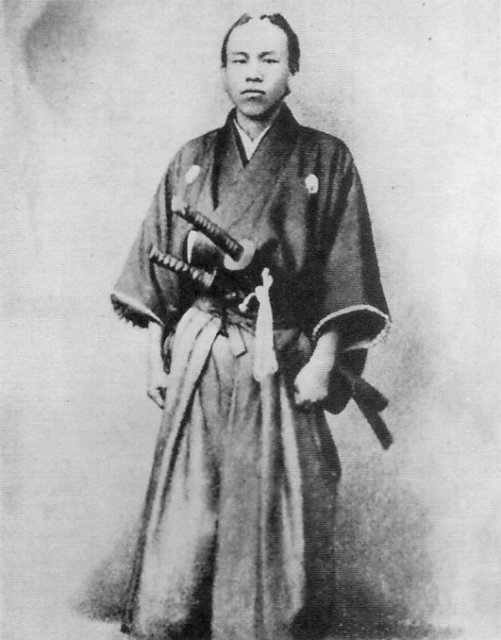 Okuma Shigenobu young